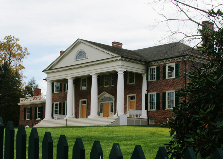 James Madison, fourth president of the United States wrote the Constitution at his estate near Orange Virginia, called Montpelier. Pictured here after an extensive renovation.